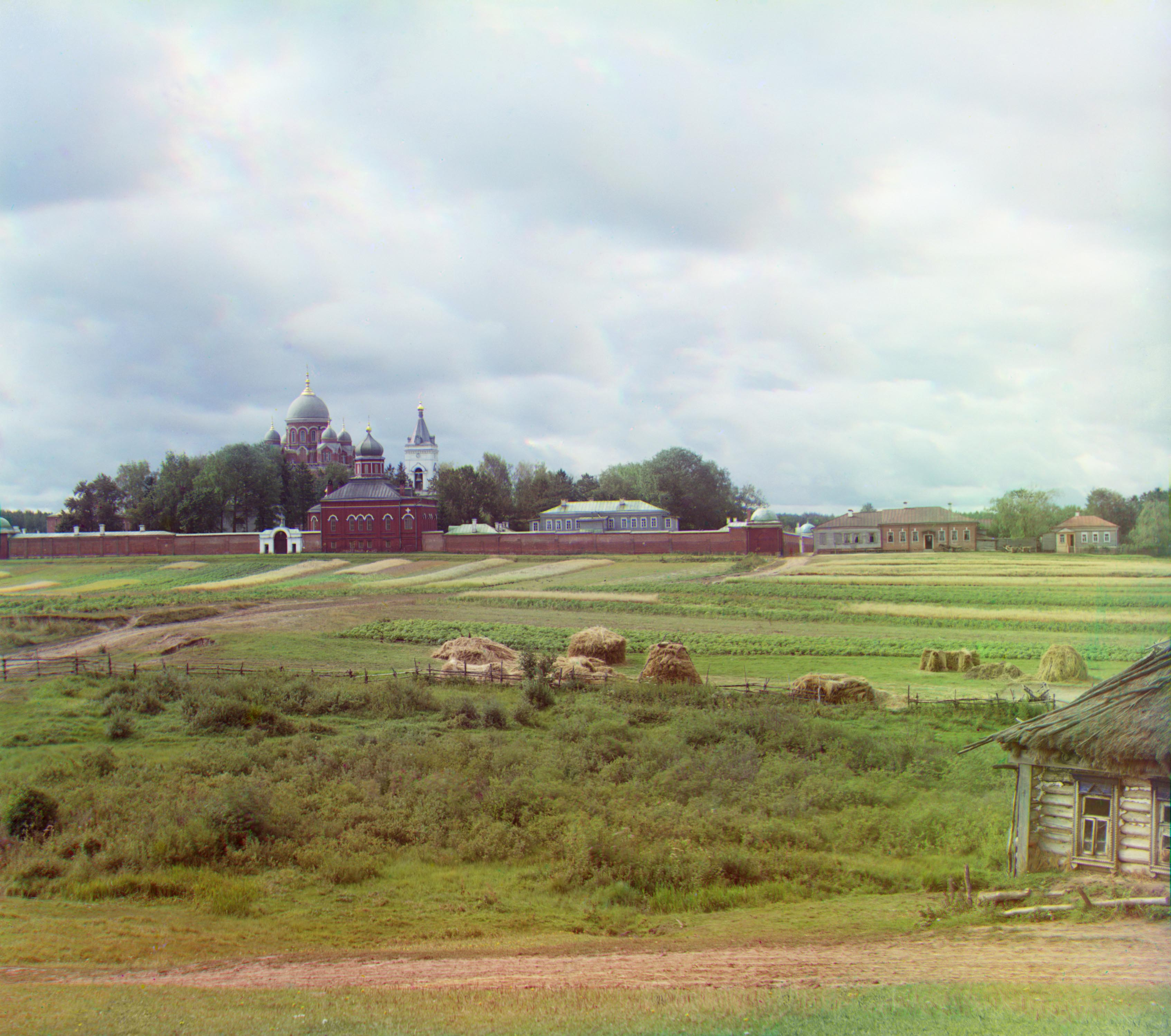 View of the Spaso-Borodinsky Monastery from the Semenovskoe (1911, S. M. Prokudin-Gorsky).